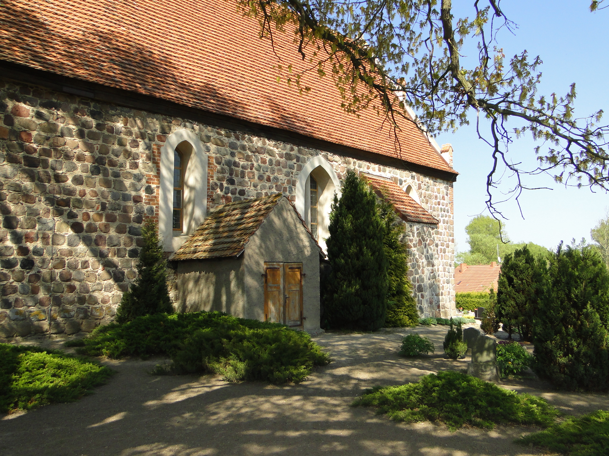 Church in Golm, district Mecklenburg-Strelitz, Mecklenburg-Vorpommern, Germany